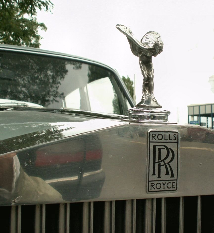 rolls royce grille and ornament above